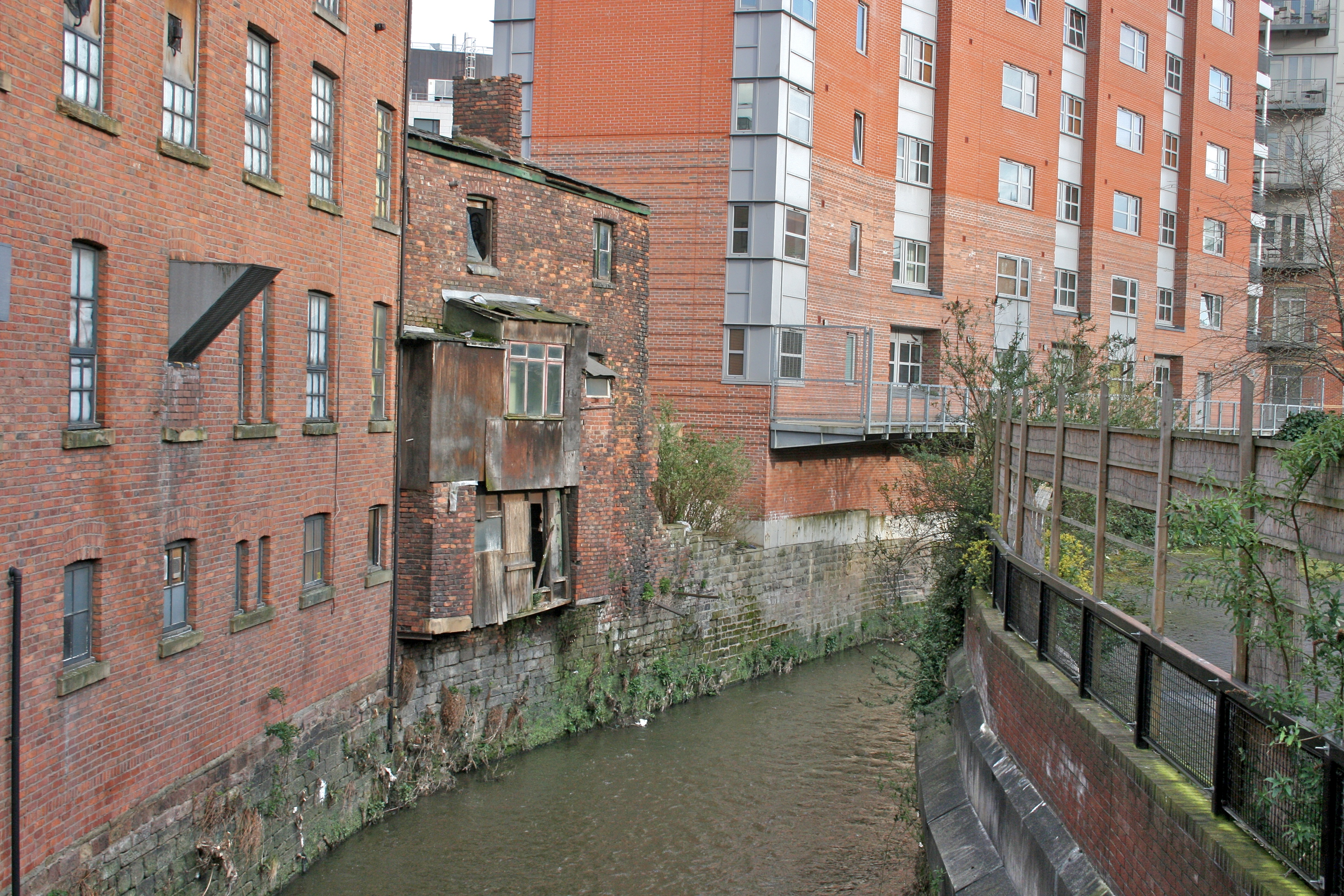 The rear of an old building on Princess Street, Manchester, England, believed to be an 18th century slum dwelling.